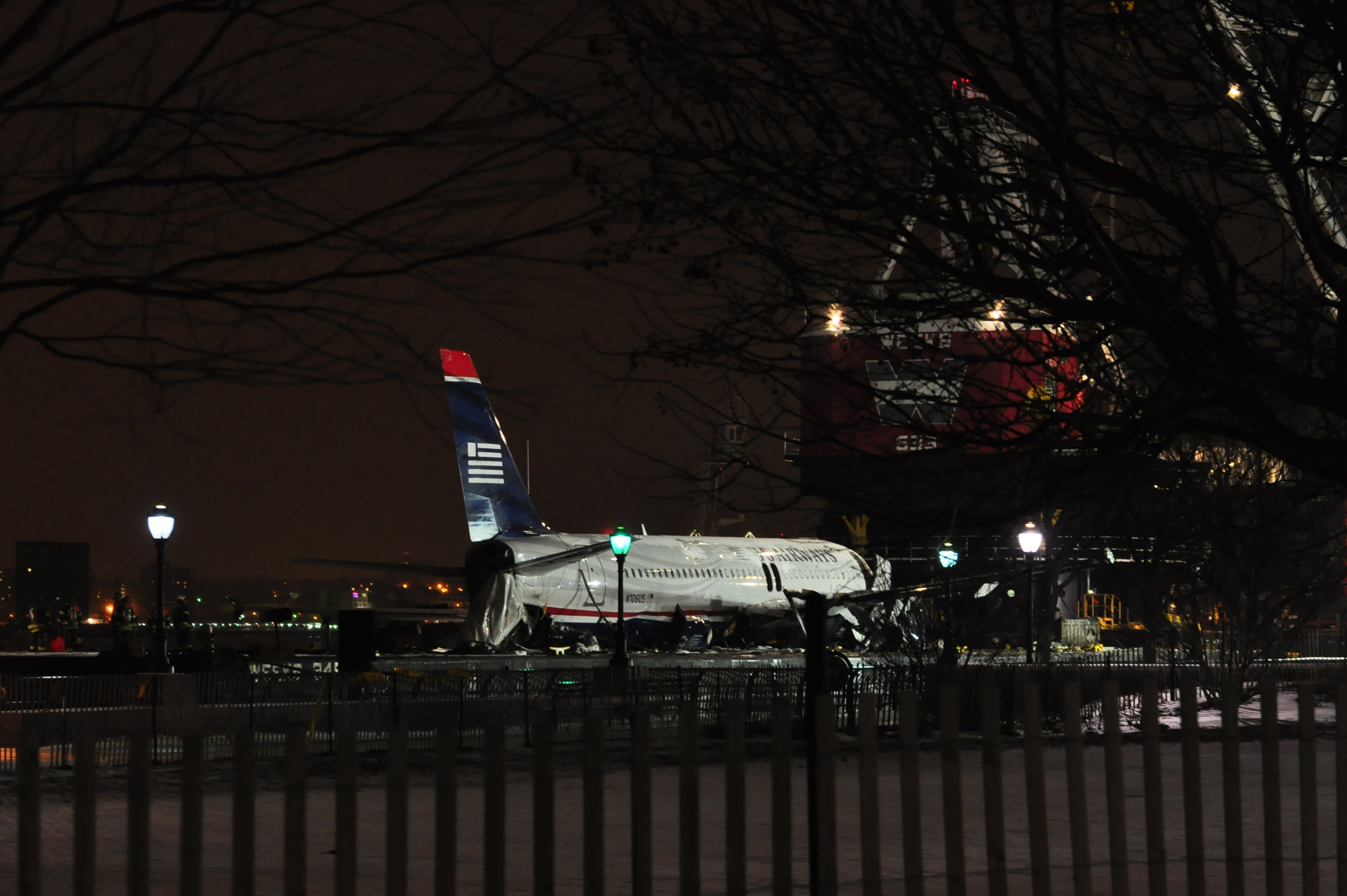 US Airways Flight 1549 next to a Battery Park City sidewalk, on a barge after being lifted out of the Hudson River.